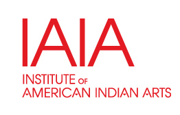 This is a logo owned by Institute of American Indian Arts.